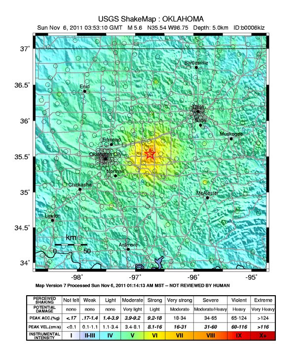 USGS Shake map for the 2011 Oklahoma earthquake.